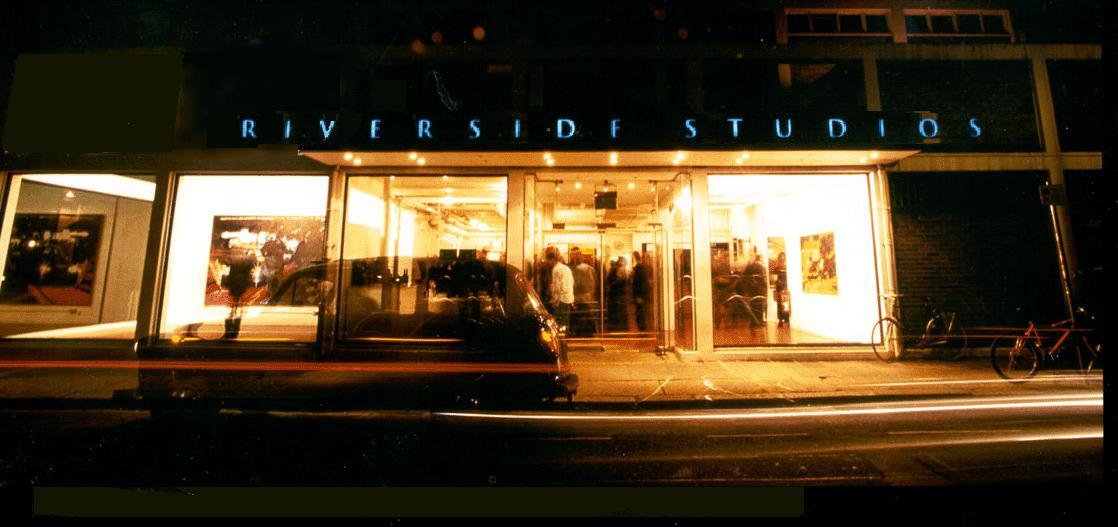 Riverside Studios, Hammersmith, London